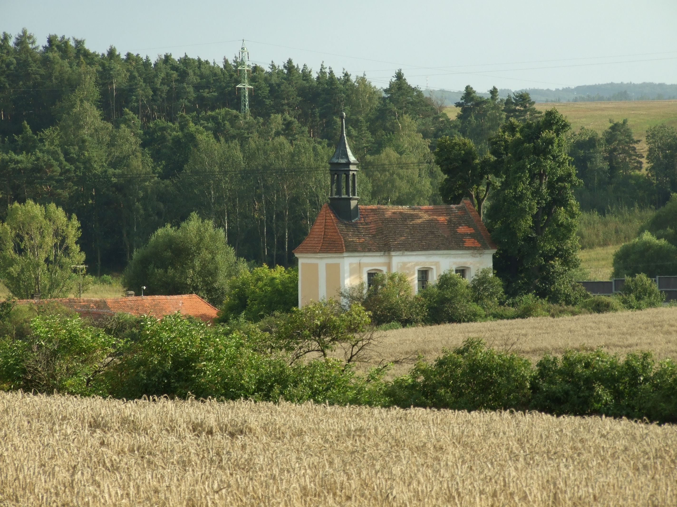 Saint Blaise church seen from a road near Panenský Týnec, Ústí nad Labem Region, CZ